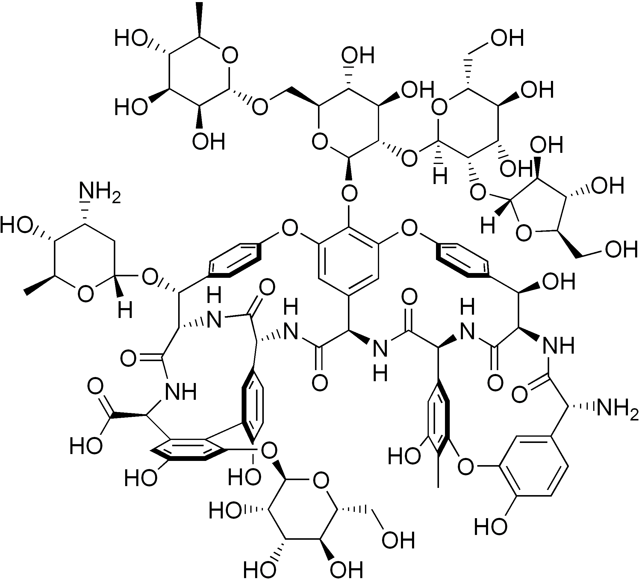 chemical structure of ristocetin (ristomycin)